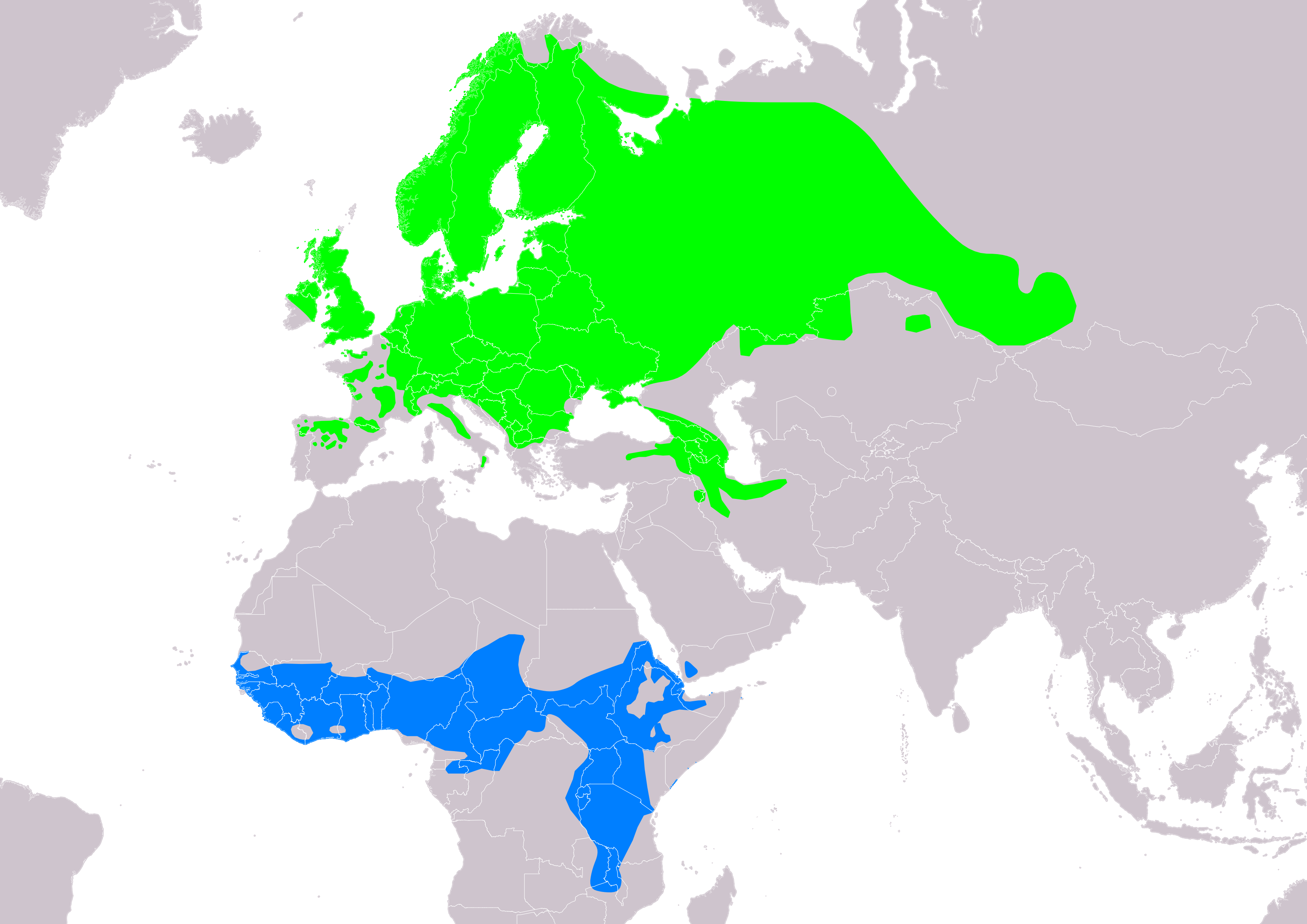 Distribution map of whinchat (Saxicola rubetra) according to IUCN version 2020.1 (compiled by: BirdLife International and Handbook of the Birds of the World (2016) 2016.); key: Legend: Extant, breeding (#00FF00), Extant, non-breeding (#007FFF)